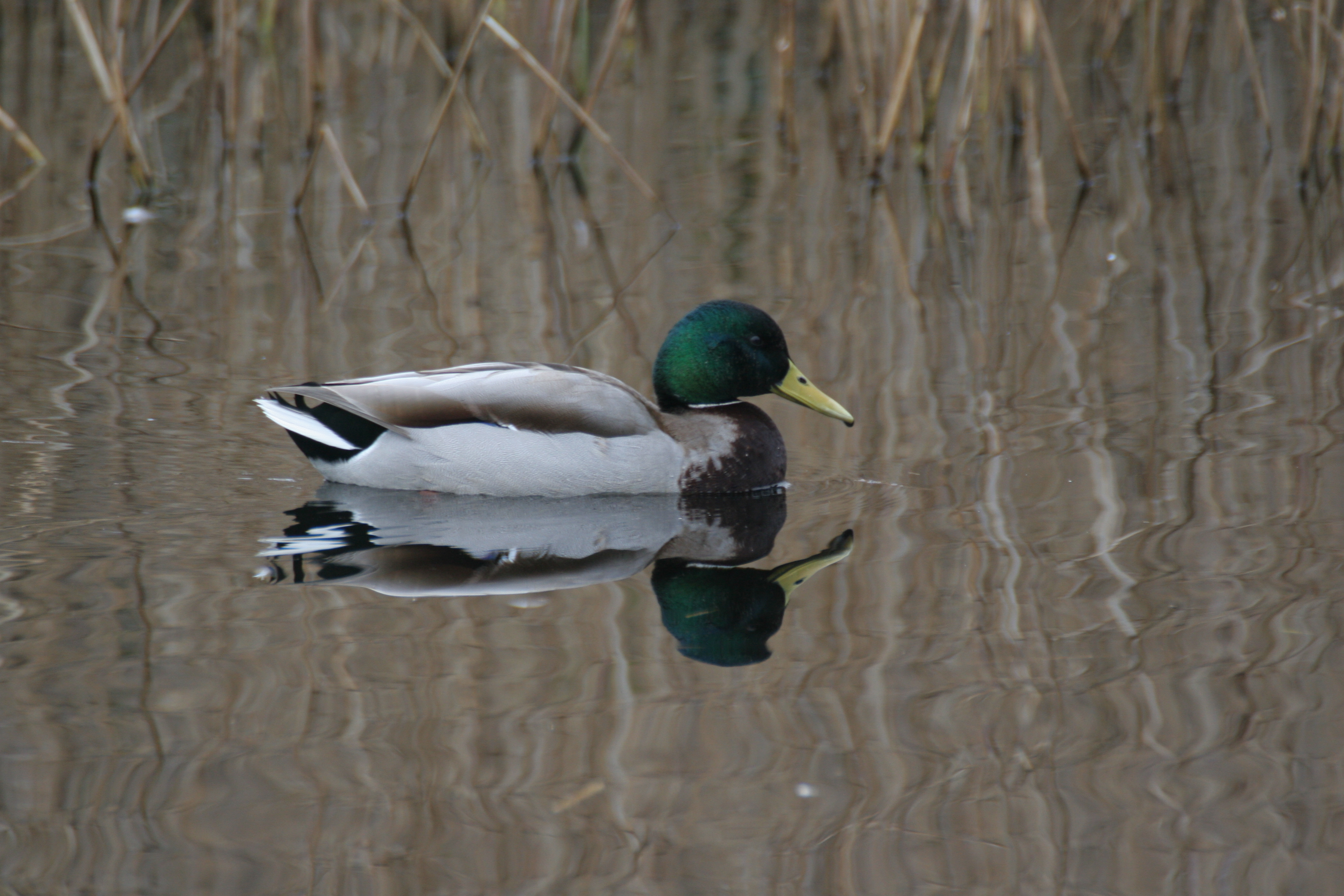 Mallard Penrhos Country Park, Anglesey Rhion Pritchard